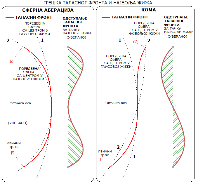 ГРЕШКА ТАЛАСНОГ ФРОНТА И НАЈБОЉА ЖИЖА